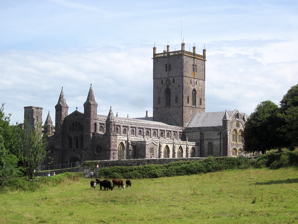 St Davids Cathedral Pembrokeshire UK